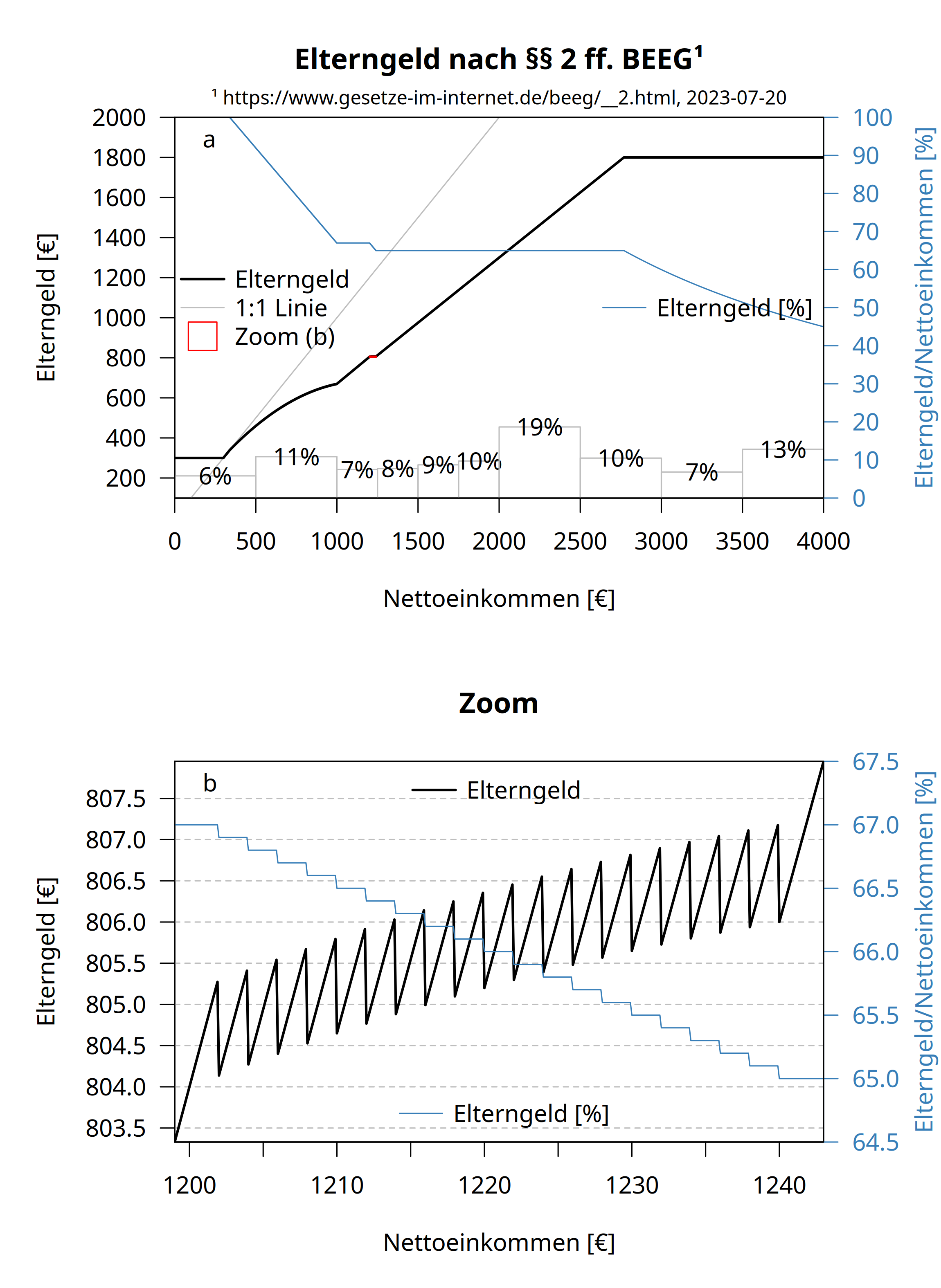 Elterngeld as a function of net income